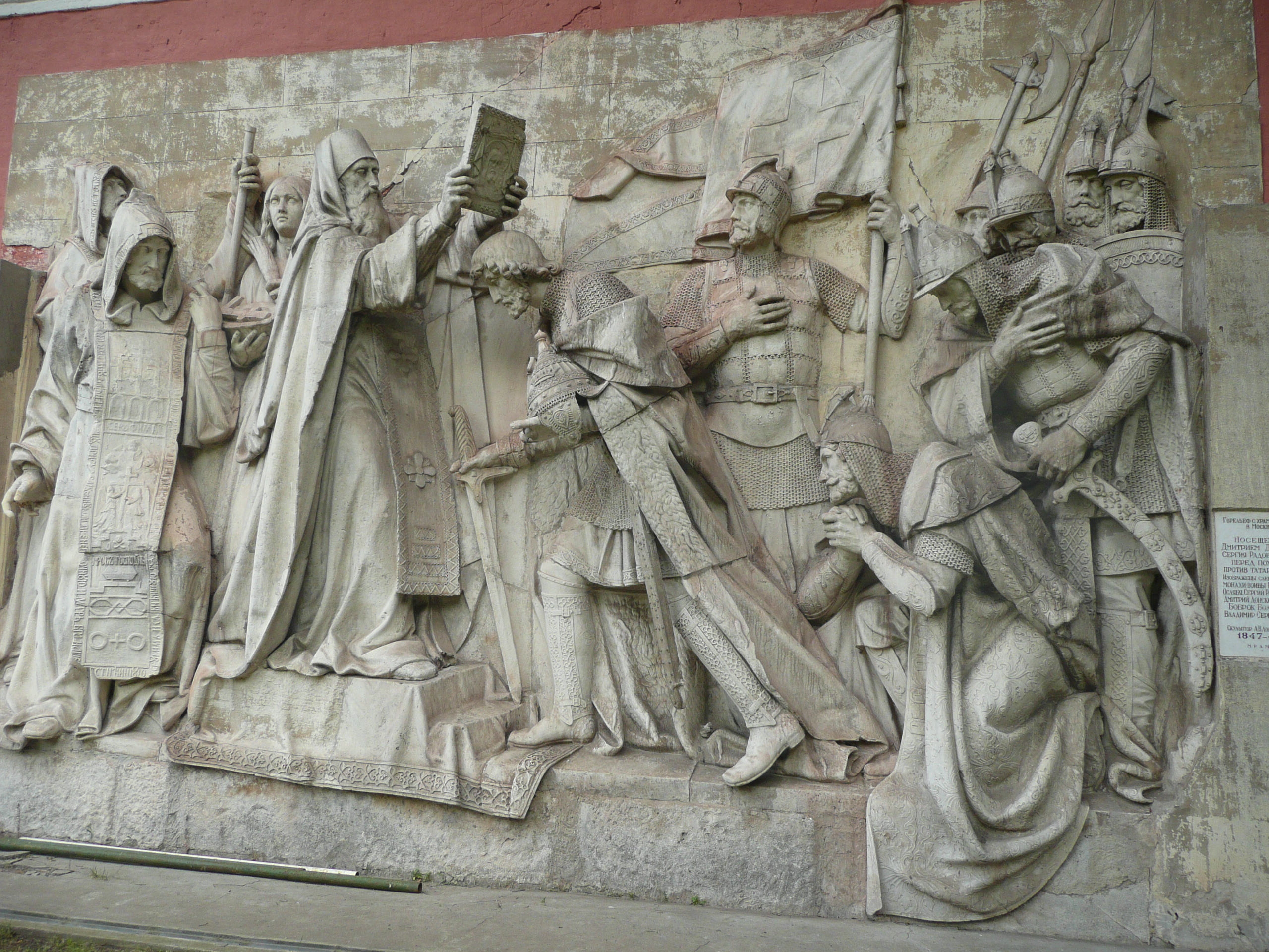 Sergius of Radonezh blesses Russian warriors (Dmitry Donskoy, Dmitry Bobrok-Volynsky, Vladimir of Serpukhov) prior to the battle of Kulikovo